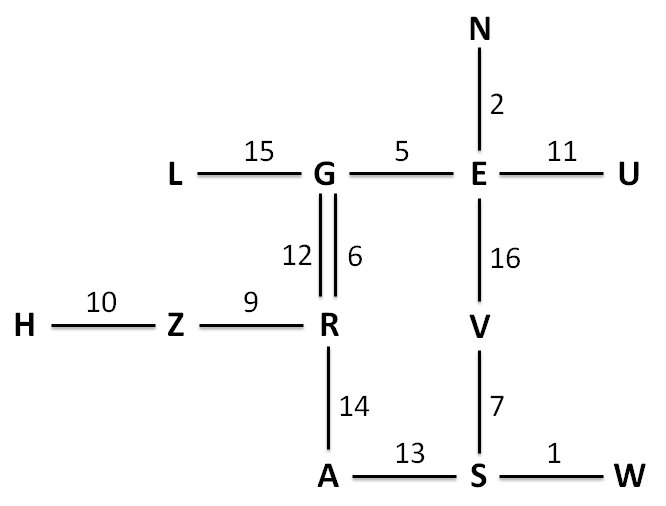 Bombe menu based on Bletchley Park display board which gives credit to Peggy Erskine-Tulloch as the originator. Links with Table in Bombe article.